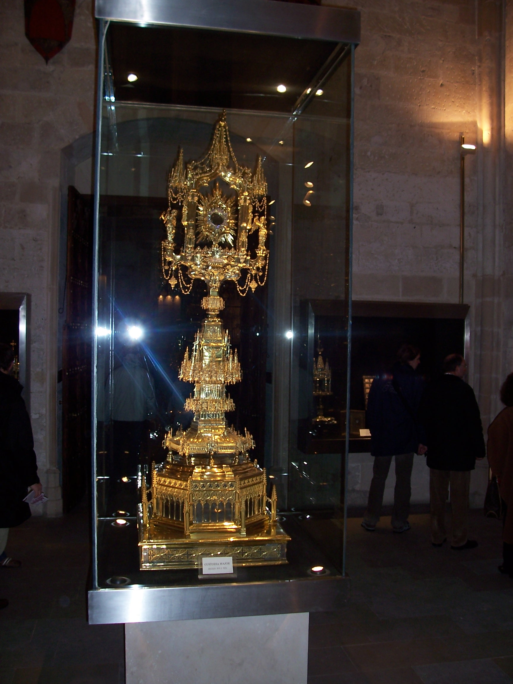 a monstrance in the Cathedral La Seu in Palma de Mallorca